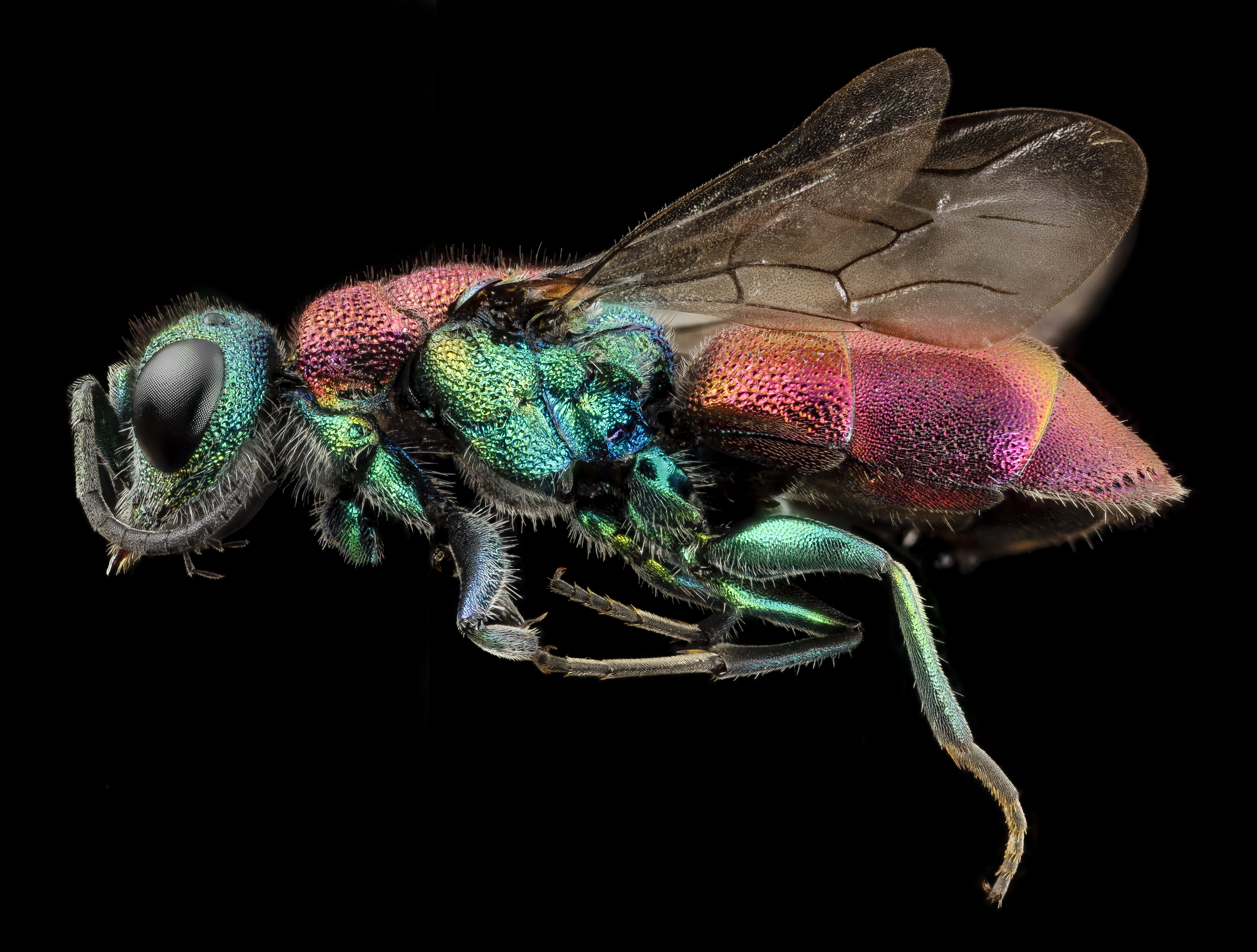 An aptly named Rubytail so pungently colored that I had to take its picture when I came across it in Laurence Packer's Lab. If only this were a little larger an entire Kyrgyz tourism industry could be developed around just this one species. Thanks to Alxndr Brg for the determination. 17:06, 17 November 2014 (UTC)17:06, 17 November 2014 (UTC) 0 17:06, 17 November 2014 (UTC)17:06, 17 November 2014 (UTC) All photographs are public domain, feel free to download and use as you wish. Photography Information: Canon Mark II 5D, Zerene Stacker, Stackshot Sled, 65mm Canon MP-E 1-5X macro lens, Twin Macro Flash in Styrofoam Cooler, F5.0, ISO 100, Shutter Speed 200 Further in Summer than the Birds Pathetic from the Grass A minor Nation celebrates Its unobtrusive Mass. No Ordinance be seen So gradual the Grace A pensive Custom it becomes Enlarging Loneliness. Antiquest felt at Noon When August burning low Arise this spectral Canticle Repose to typify Remit as yet no Grace No Furrow on the Glow Yet a Druidic Difference Enhances Nature now -- Emily Dickinson Want some Useful Links to the Techniques We Use? Well now here you go Citizen: Basic USGSBIML set up: USGSBIML Photoshopping Technique: Note that we now have added using the burn tool at 50% opacity set to shadows to clean up the halos that bleed into the black background from "hot" color sections of the picture. PDF of Basic USGSBIML Photography Set Up: ftp://ftpext.usgs.gov/pub/er/md/laurel/Droege/How%20to%20Take%20MacroPhotographs%20of%20Insects%20BIML%20Lab2.pdf Google Hangout Demonstration of Techniques: or Excellent Technical Form on Stacking: Contact information: Sam Droege 301 497 5840